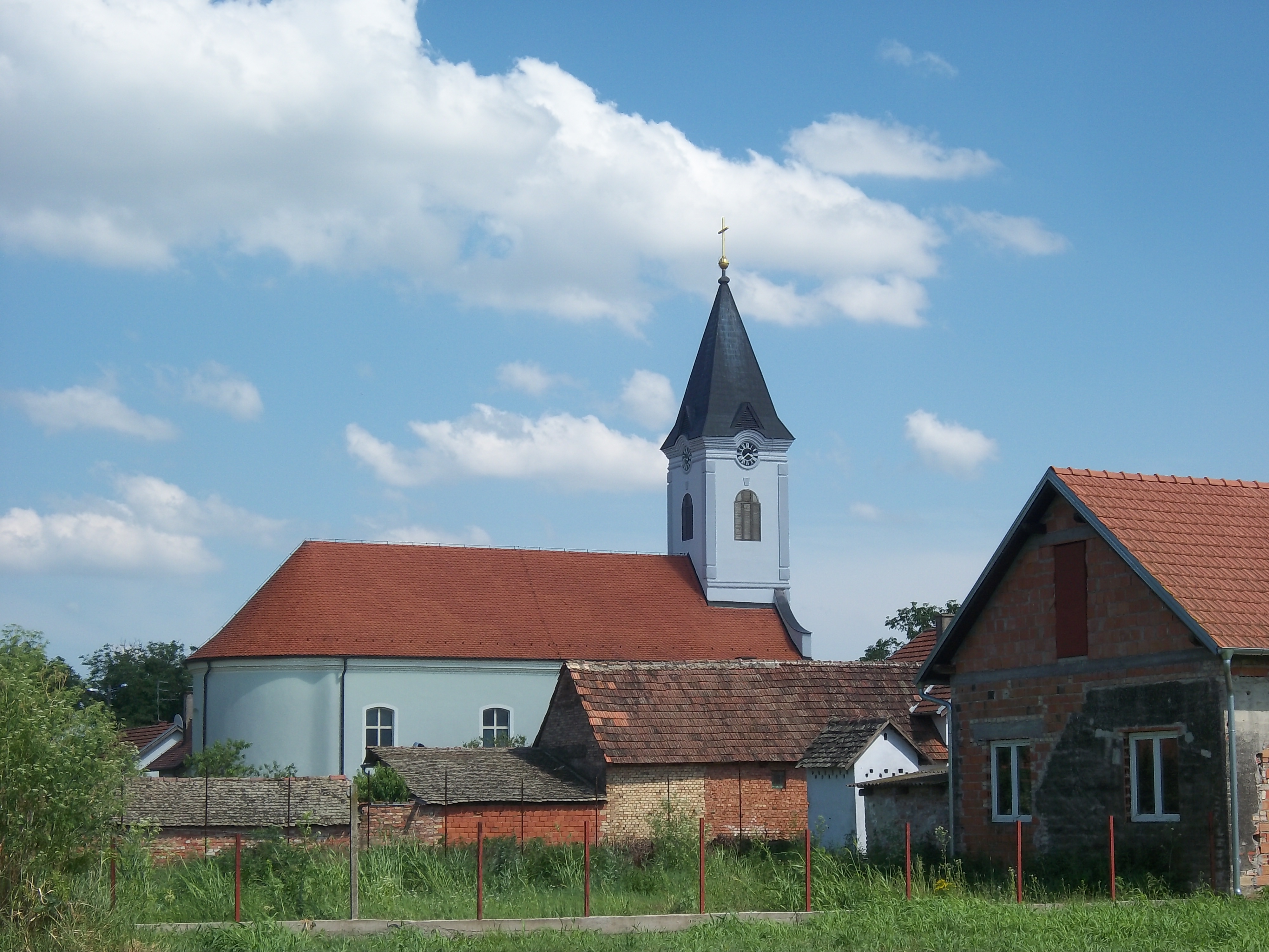 Tordinci, Croatia Srpskohrvatski / српскохрватски: rimokatolička crkva, Tordinci, Hrvatska